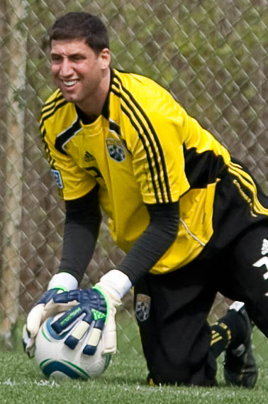 I shot this photo during training on 4/15/2011 at Columbus Crew Training Center in Obetz, Ohio.